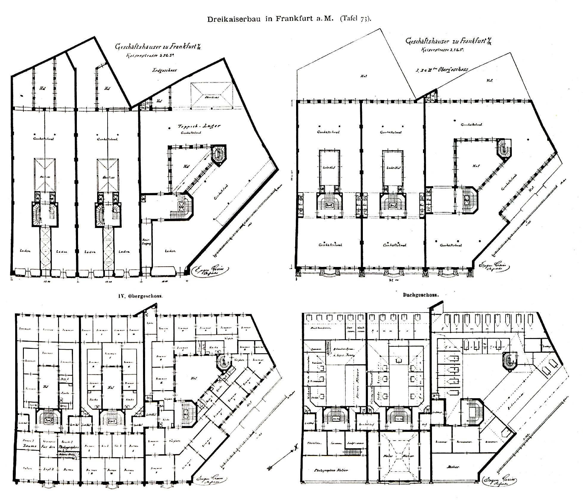 Drei_Kaiserbau_in_Frankfurt_am_Main,_Architekt_Eugen_Greiss,_Frankfurt,_Tafel_73,_Kick_Jahrgang_II.jpg